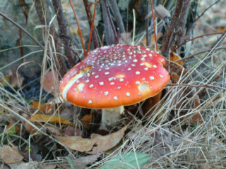 Fly agaric.